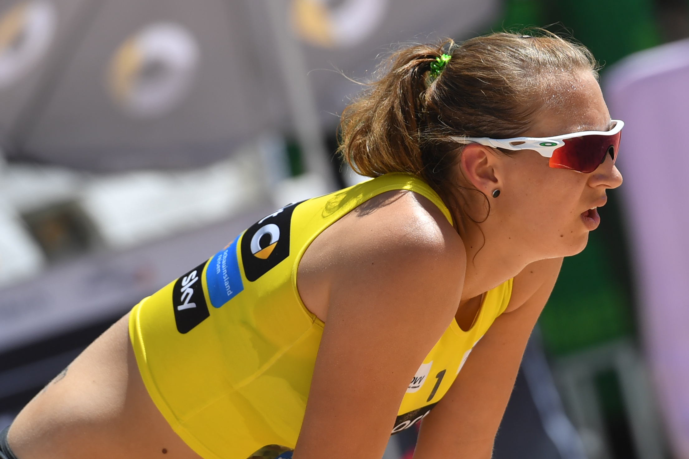 27/5/2017, Nuremberg, Germany, Sports, beach volleyball, smart beach cup Nuernberg.